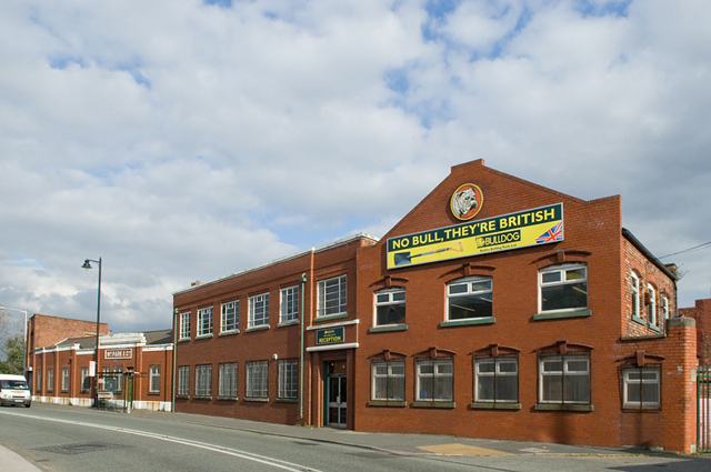 Bulldog Tools - Darlington Street